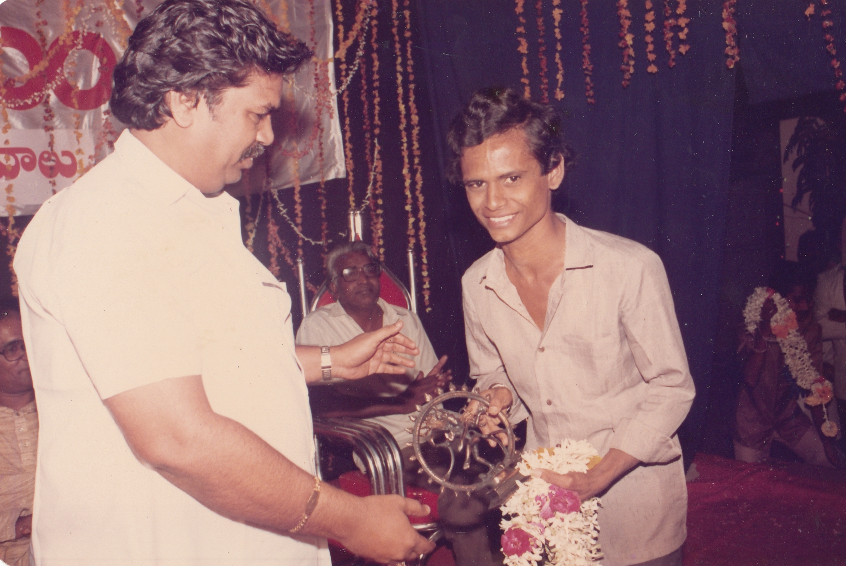 This is myself Malladi Kameswar Rao receiving appreciation award for the musical mime Oka Laila Kosam (lady character, writer, director) from Veteran cine director Dasari Narayana Rao in 1988 at Vijayawada.